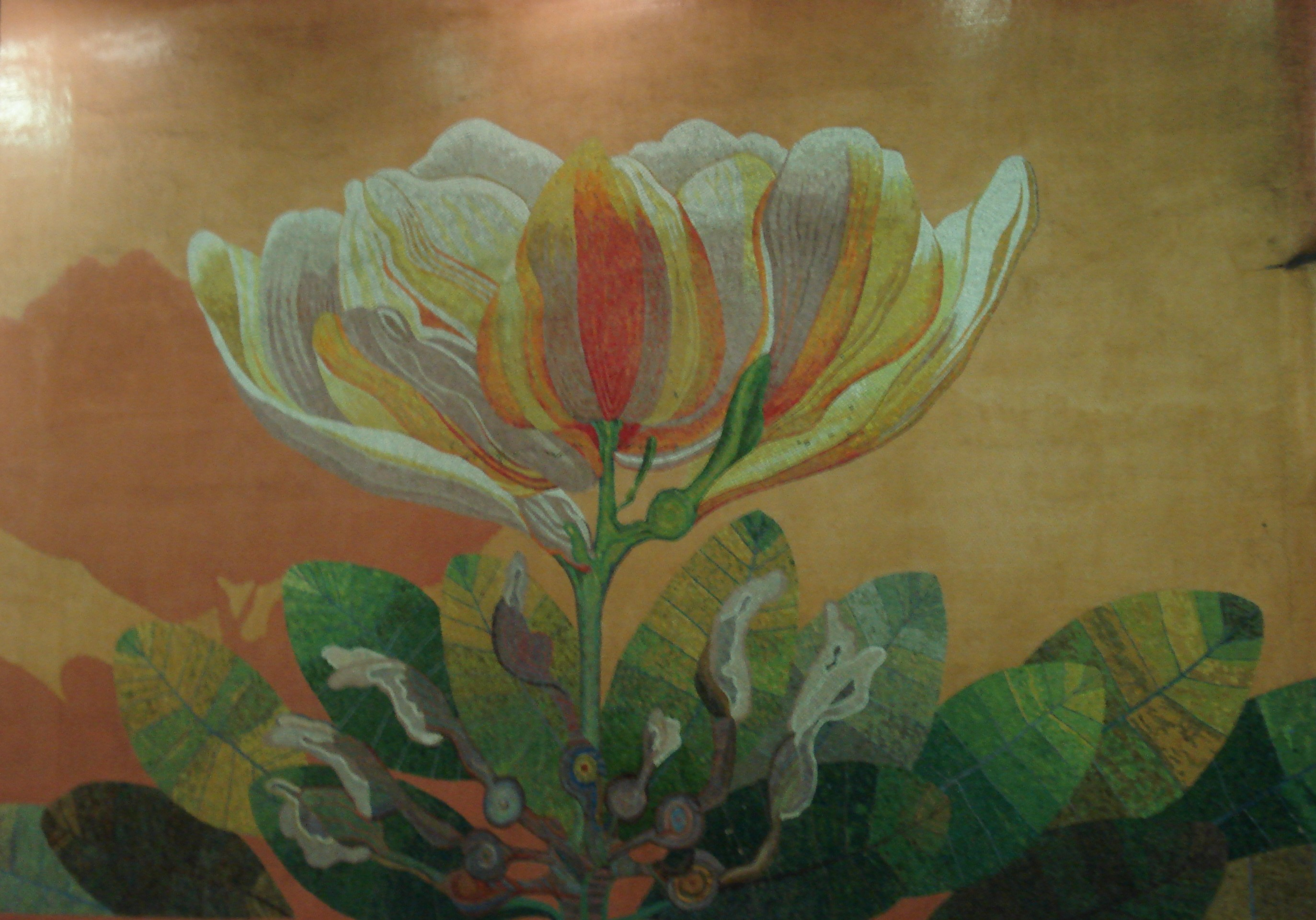 Dupont Tile work